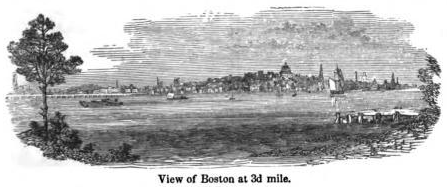 Description of the Boston and Worcester and Western Railroads: In which is Noted the Towns, Villages, Station, Bridges, Viaducts, Tunnels, Cuttings, Embankments, Gradients, &c., the Scenery and Its Natural History, and Other Objects Passed by this Line of Railway. With Numerous ... By William Guild Published by Bradbury & Guild, 1847 p. 13